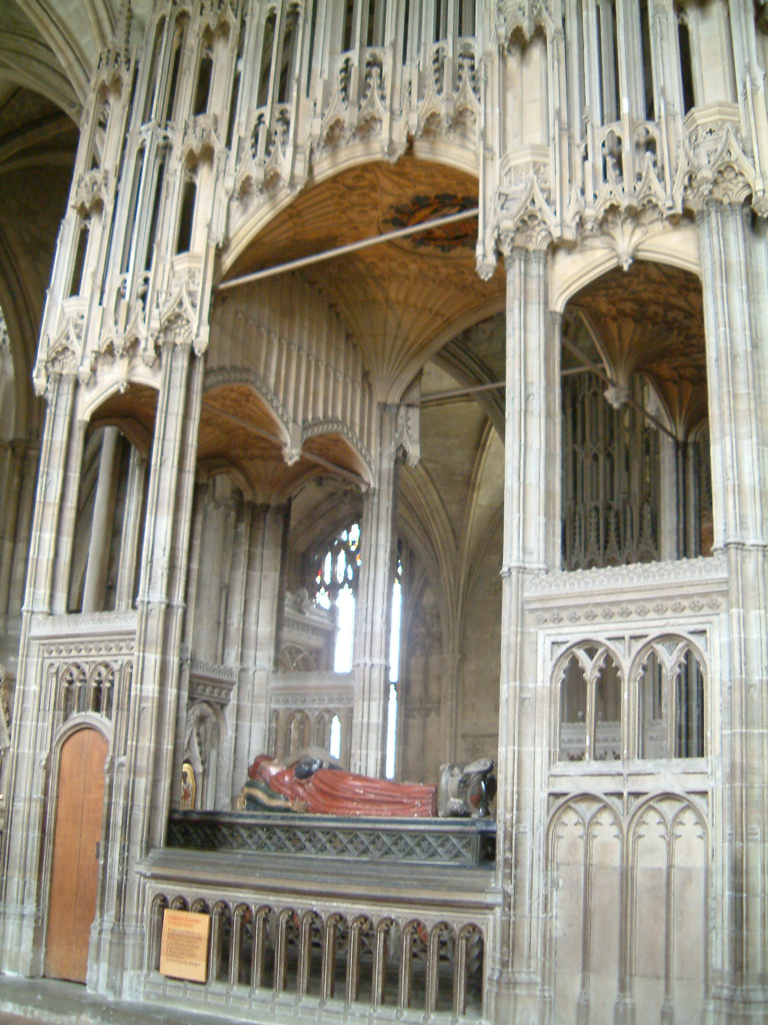 Winchester Cathedral, Winchester, England, United-Kingdom